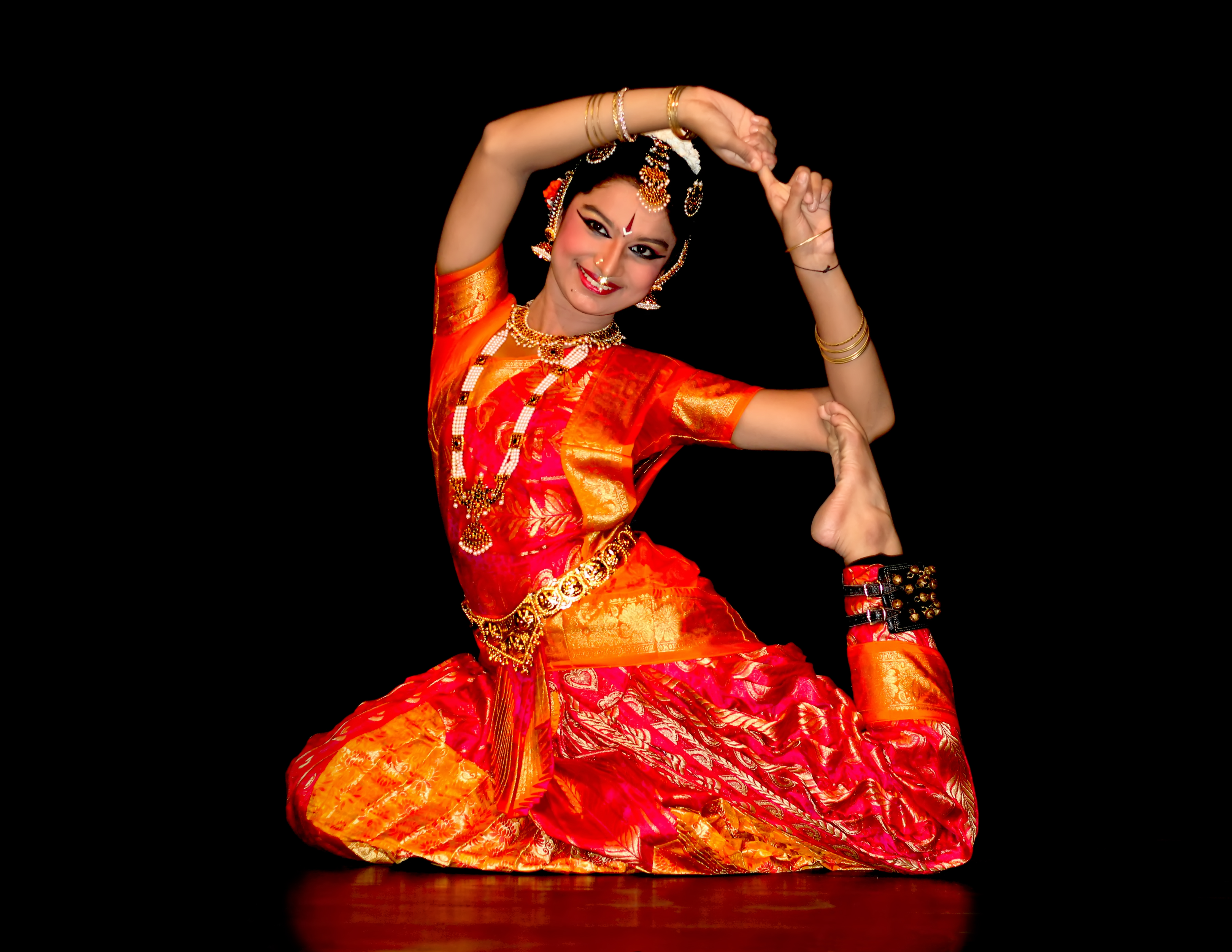 Bharatanatyam originated in southern India in the state of Tamilnadu. It started as a temple dance tradition called Dasiyattam (the dance of the maid-servants) 2000 years ago and is perhaps the most advanced and evolved dance form of all the classical Indian dance forms. The name Bharatanatyam is a simple derivation from the four most important aspects of dance (in Sanskrit). These are: Bha from Bhava meaning emotion, Ra from Raaga meaning music or melody, Ta from Taala meaning rhythm and Natyam meaning dance.